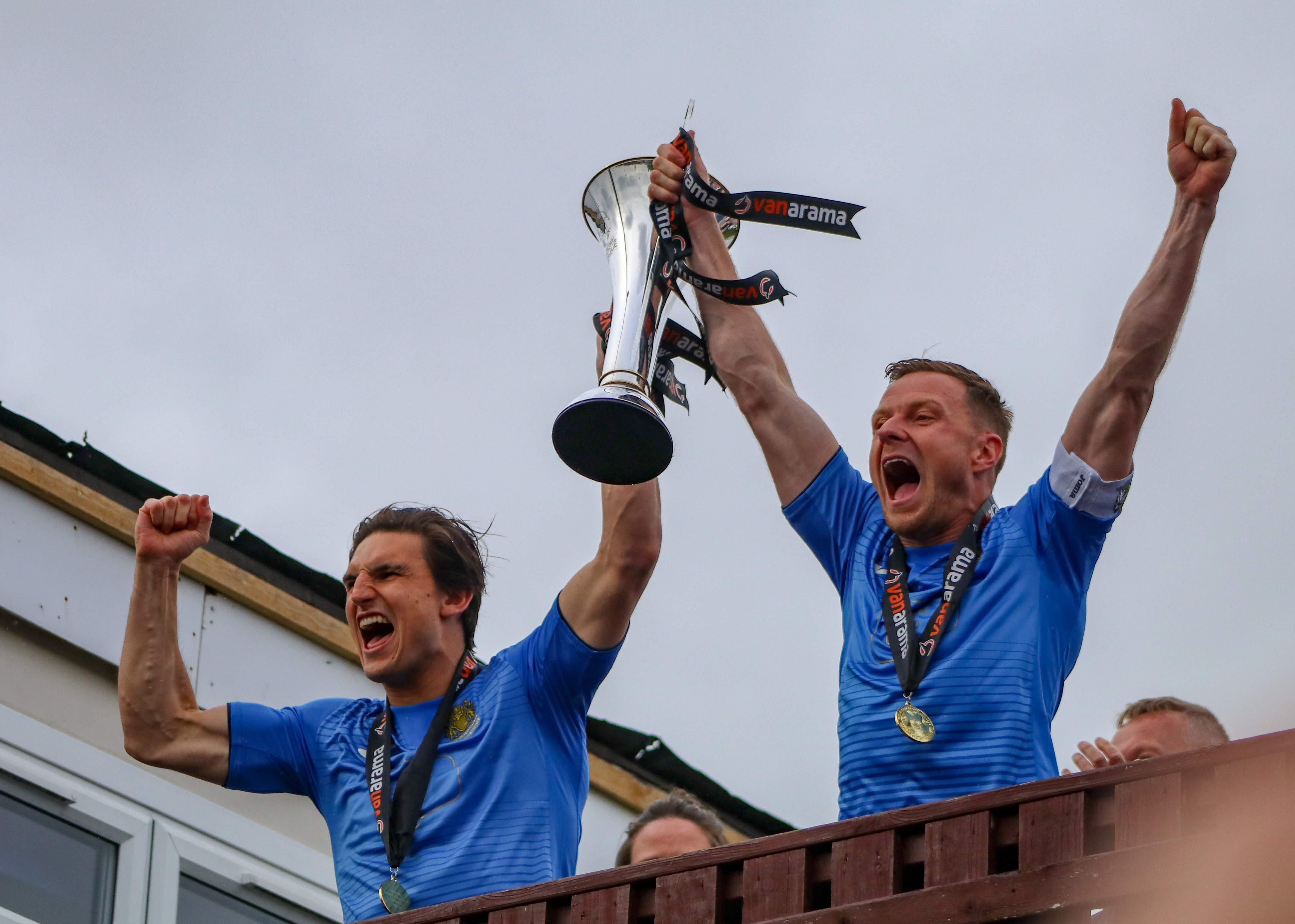 Ash Palmer and County Captain Paul Turnbull lift the National League North Trophy at Nuneaton, April 27th, 2019.